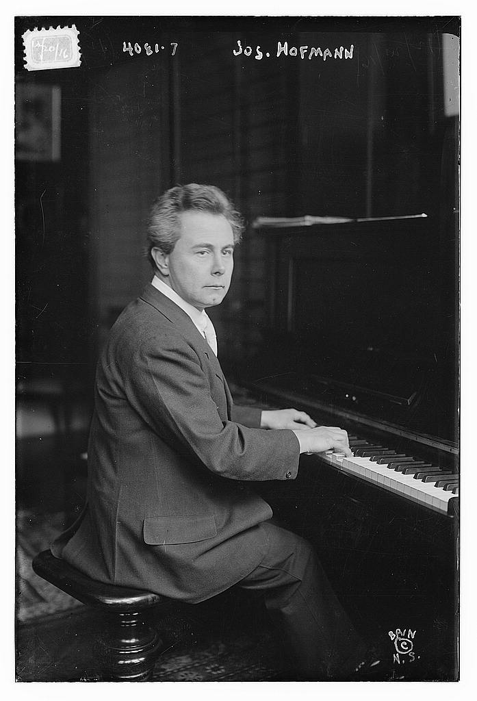 Josef Casimir Hofmann in 1916